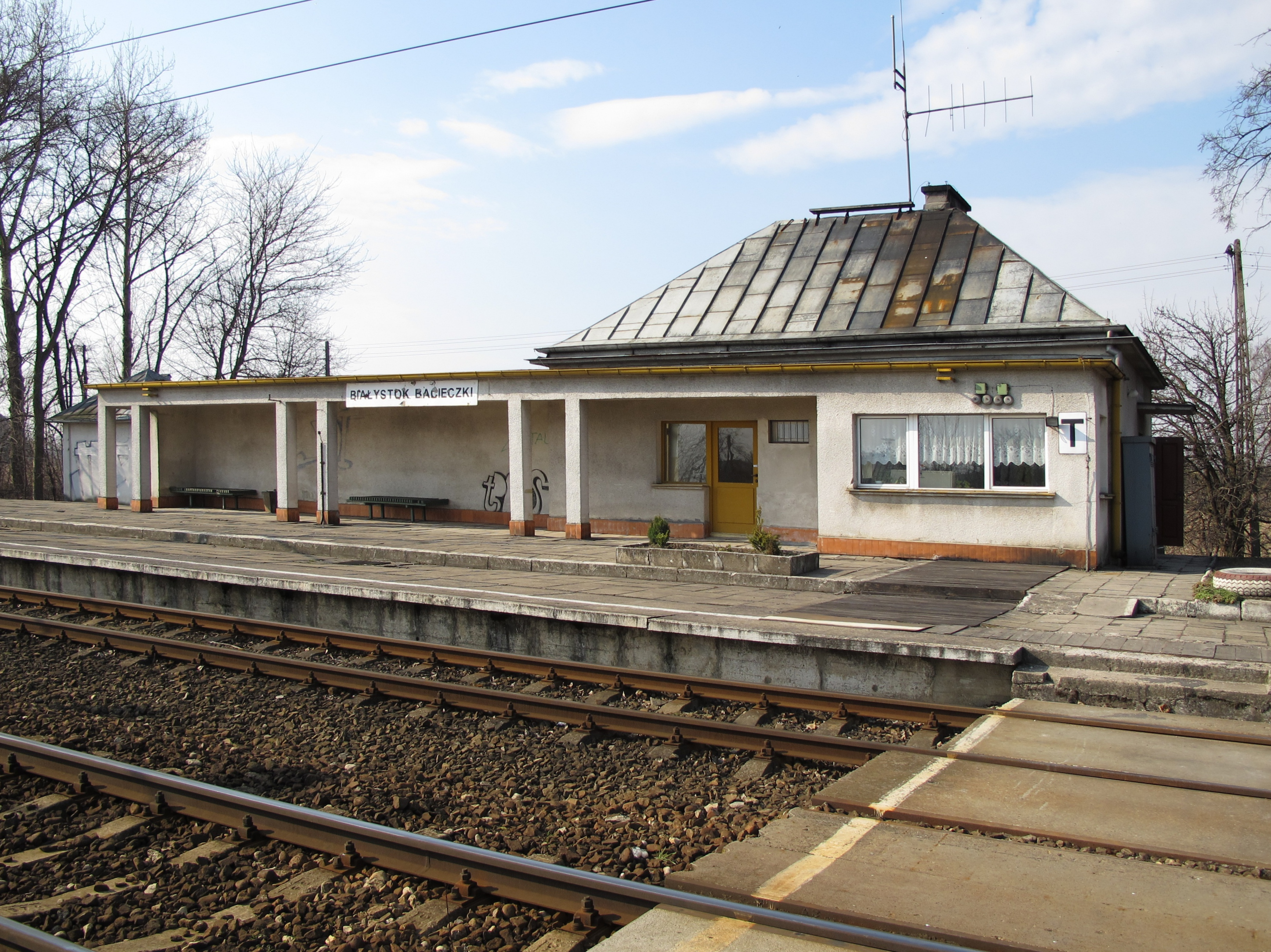 Białystok Bacieczki train station — building. Białystok, podlaskie, Poland.